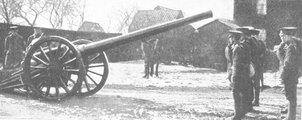 British QF 4.7 inch Gun on 1900 "Woolwich" carriage, UK, circa 1914.